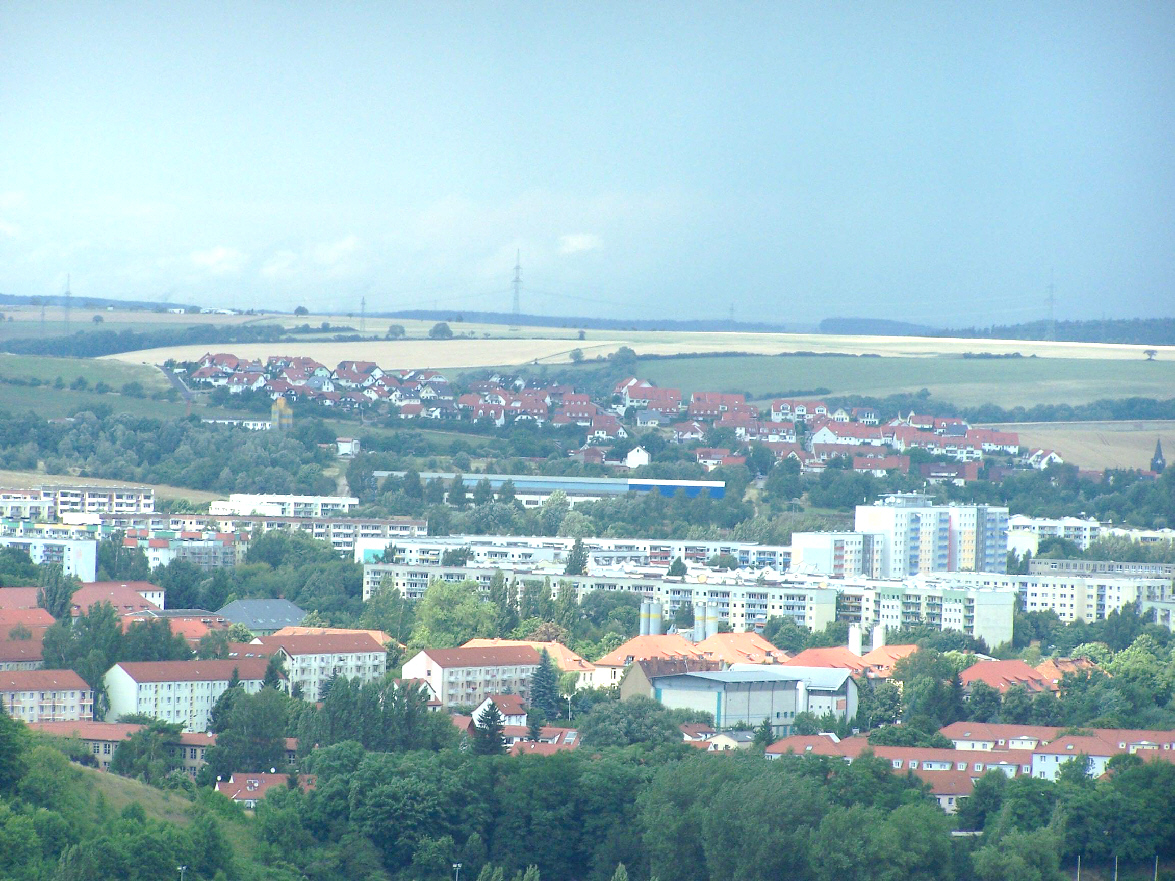 The northern settlements of Eisenach.